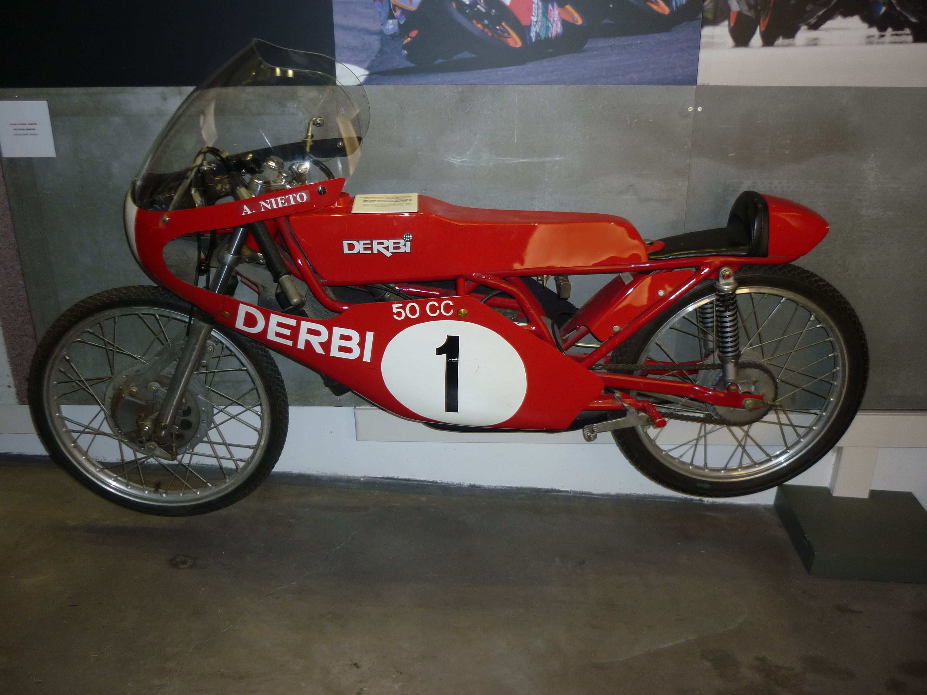 Derbi GP 50cc. On this bike, Ángel Nieto won the 50cc World Championship in 1969.